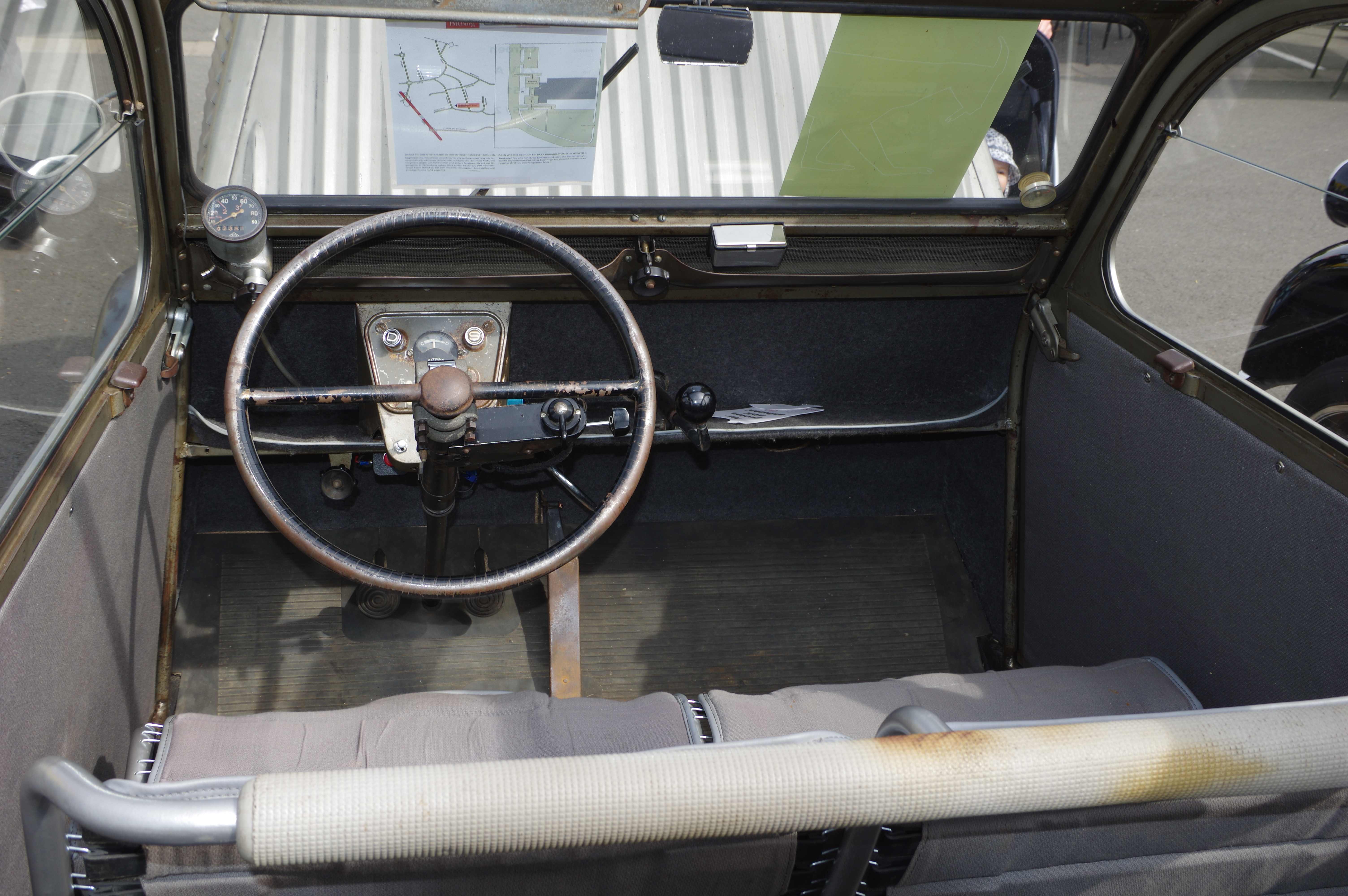 Citroën 2 CV A, 1951, 375 cm³, 2 Zyl., 9 PS , Bitburg Classic 2016